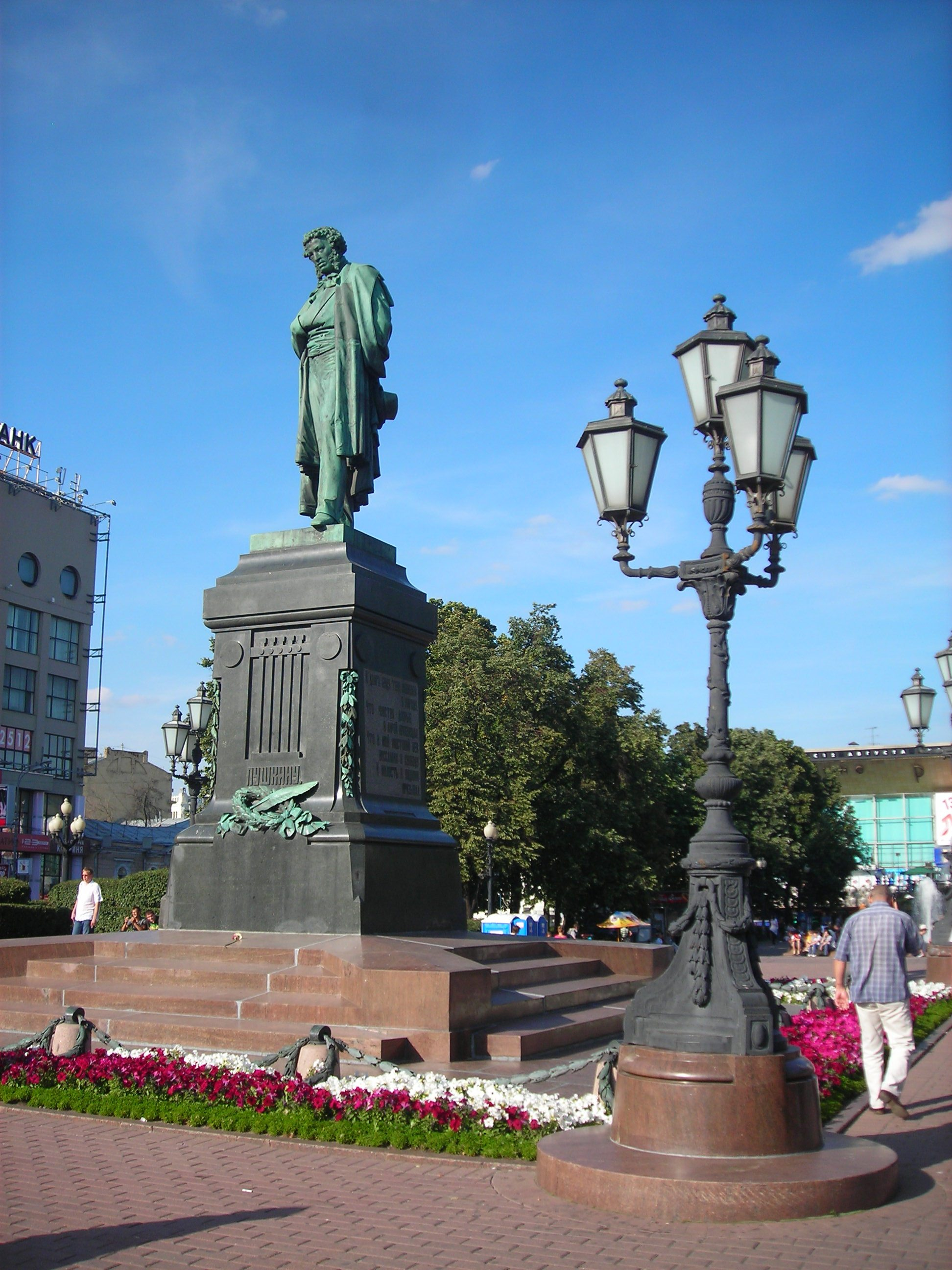 Monument of Pushkin at Pushkinskaya, Moscow, Russia